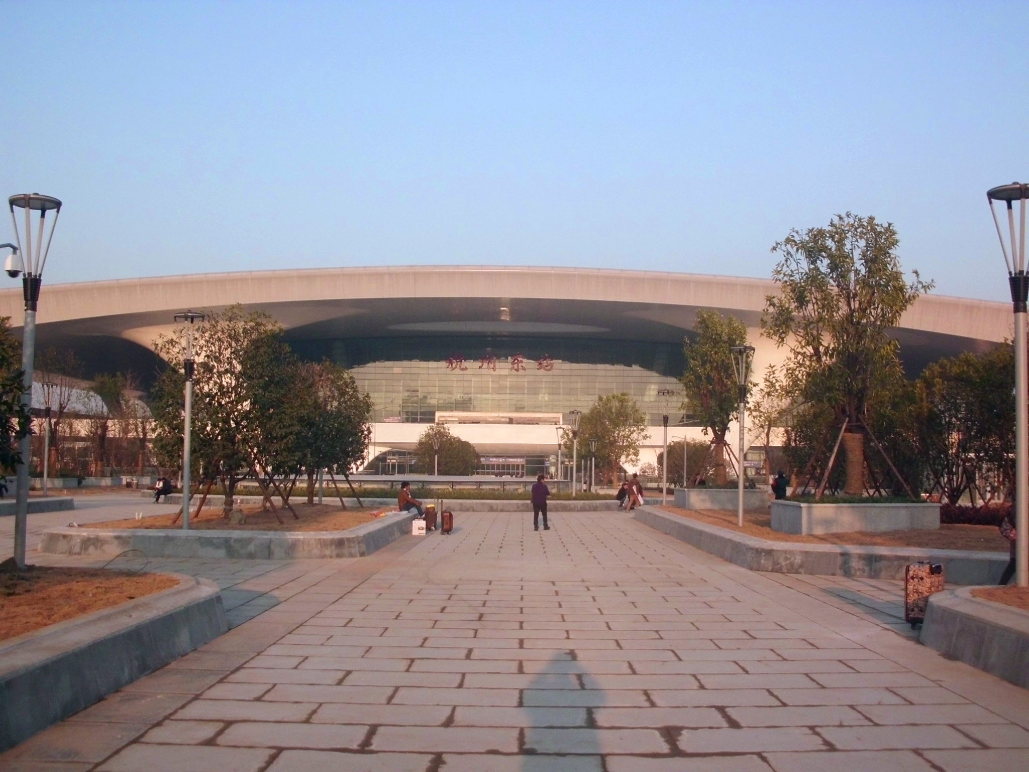 Hangzhoudong Railway Station